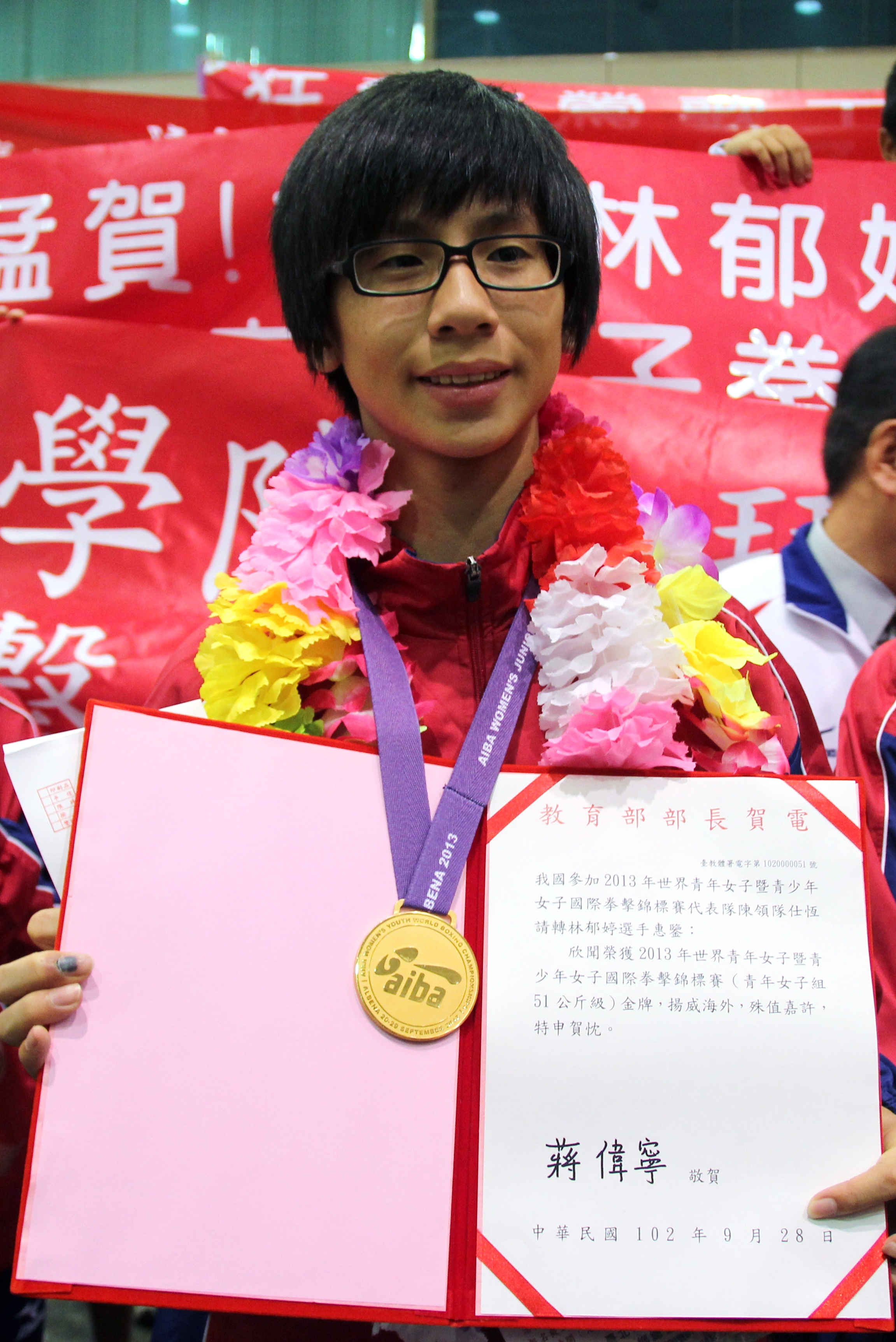 林郁婷為臺灣女子拳擊手中首位於世界盃賽事青年級組中奪牌的選手